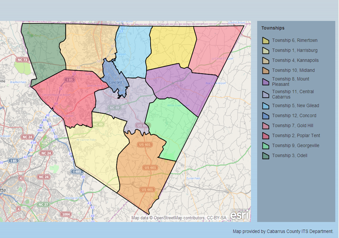 Cabarrus County Township Boundaries and Names